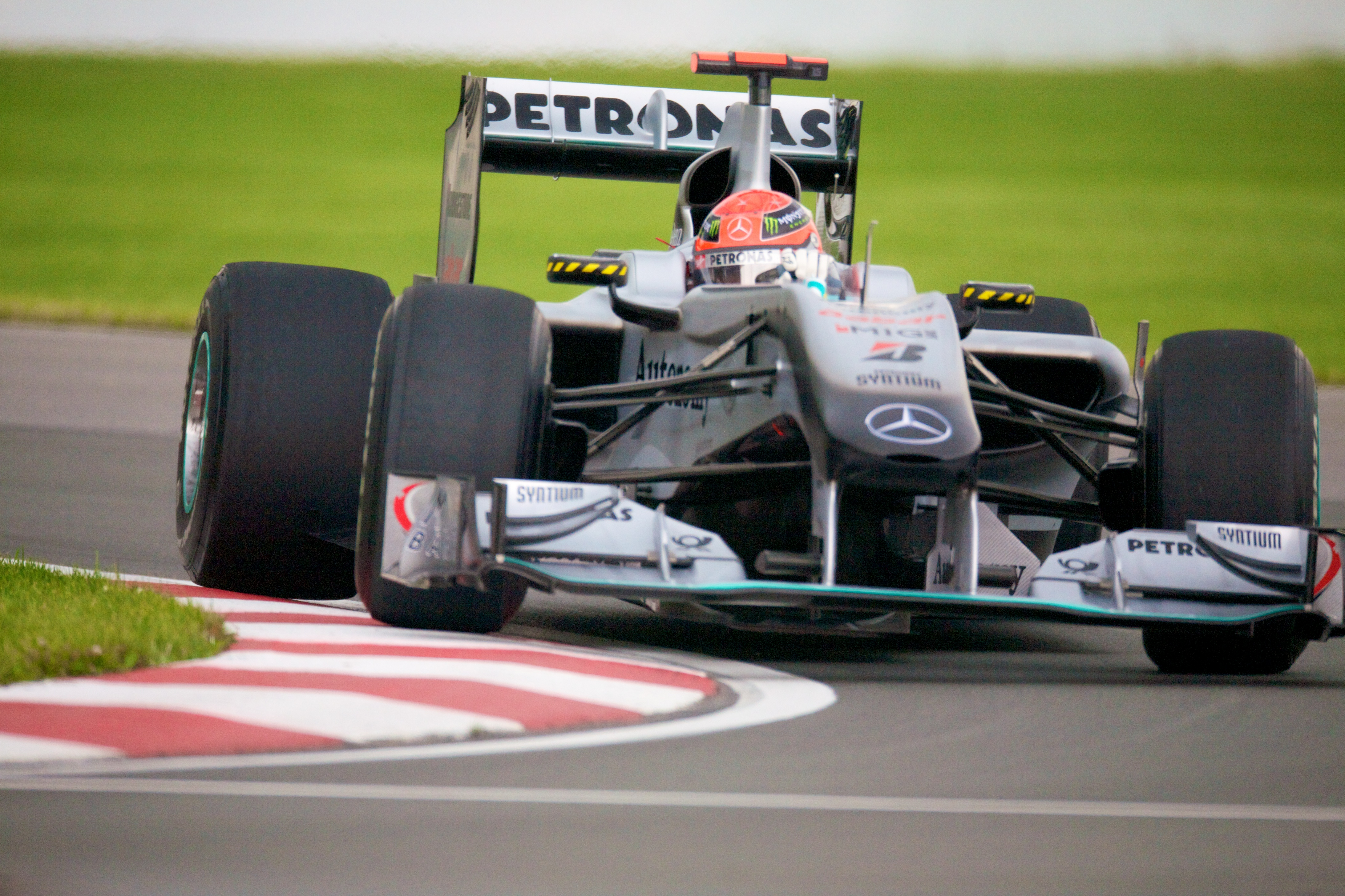 Formula One 2010 Rd.8 Canadian GP: Michael Schumacher (Mercedes GP) driving the MGP W01.